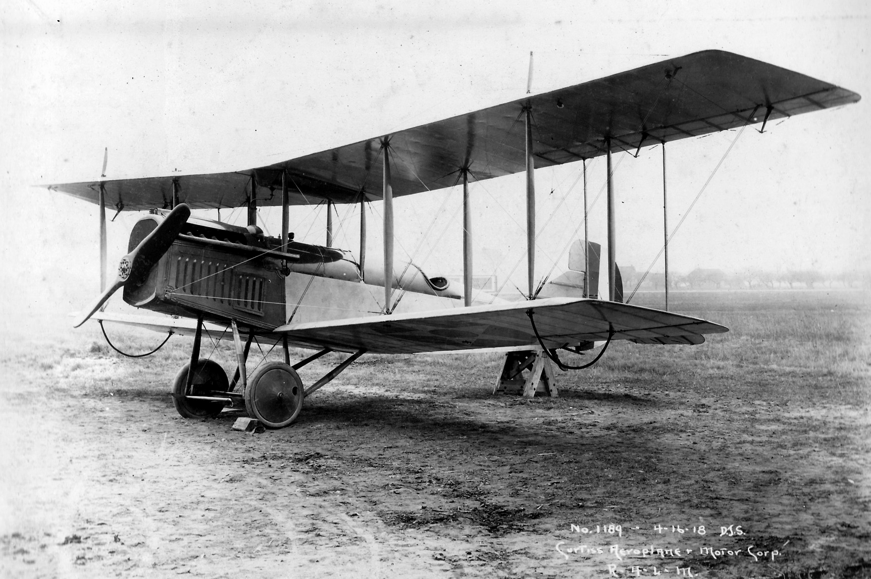 A U.S. Navy R-4L aircraft (s/n 1189) manufacturered by Curtiss Aeroplane and Motor Company, Inc.